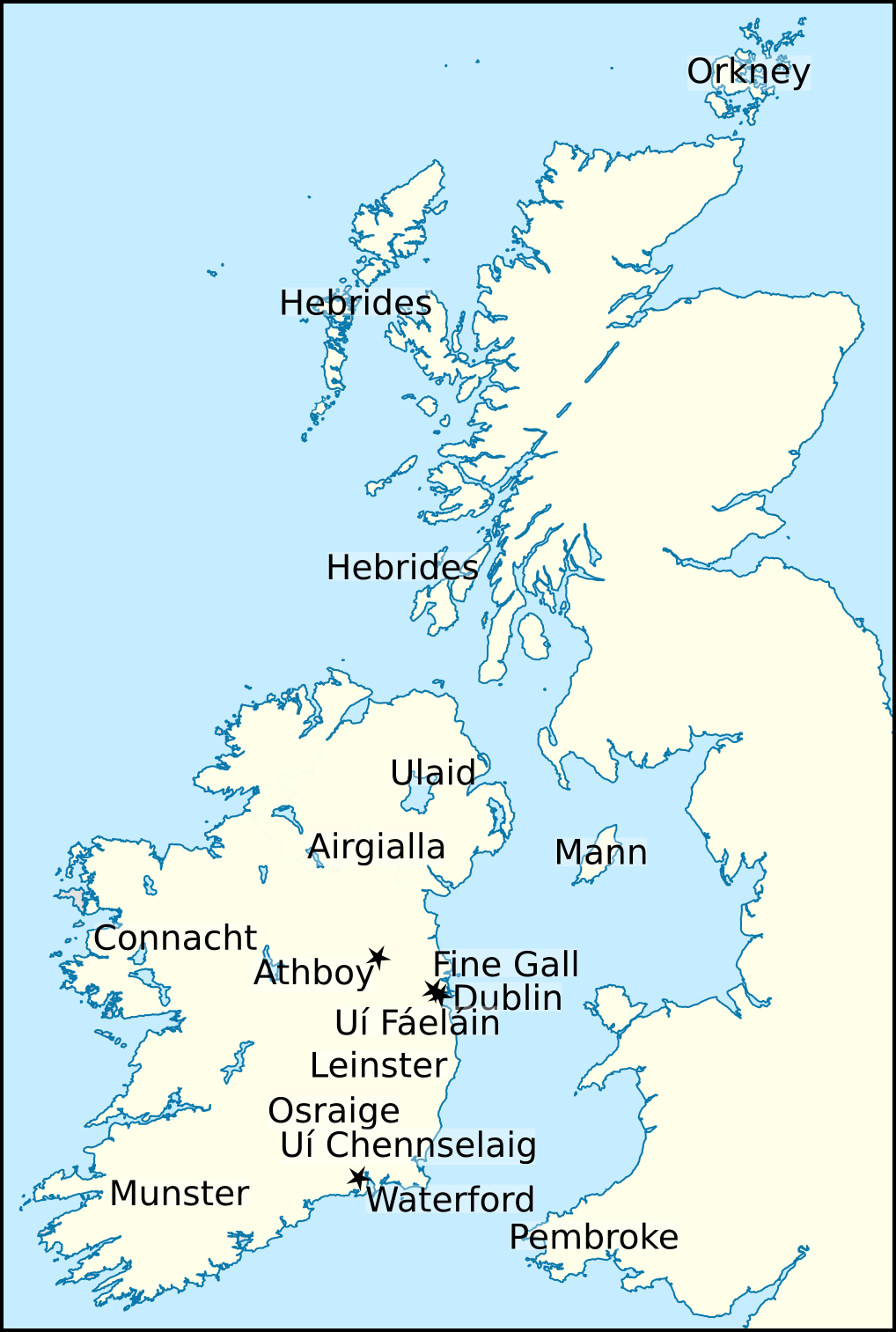 Map showing various places mentioned in the Wikipedia article Ascall mac Ragnaill.